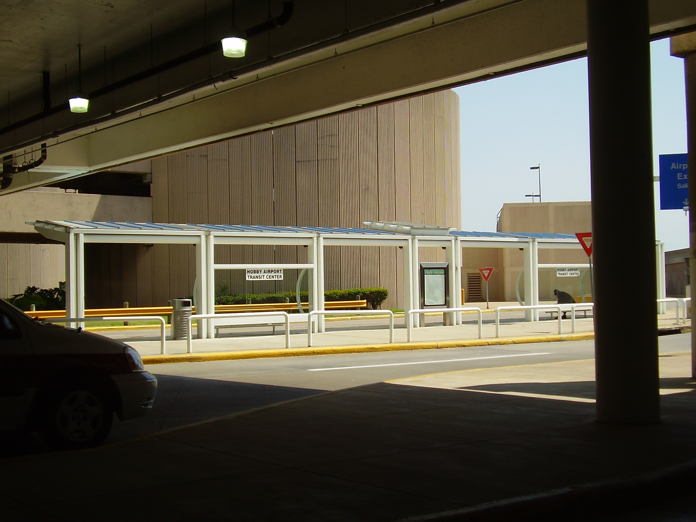 Hobby Airport Transit Center